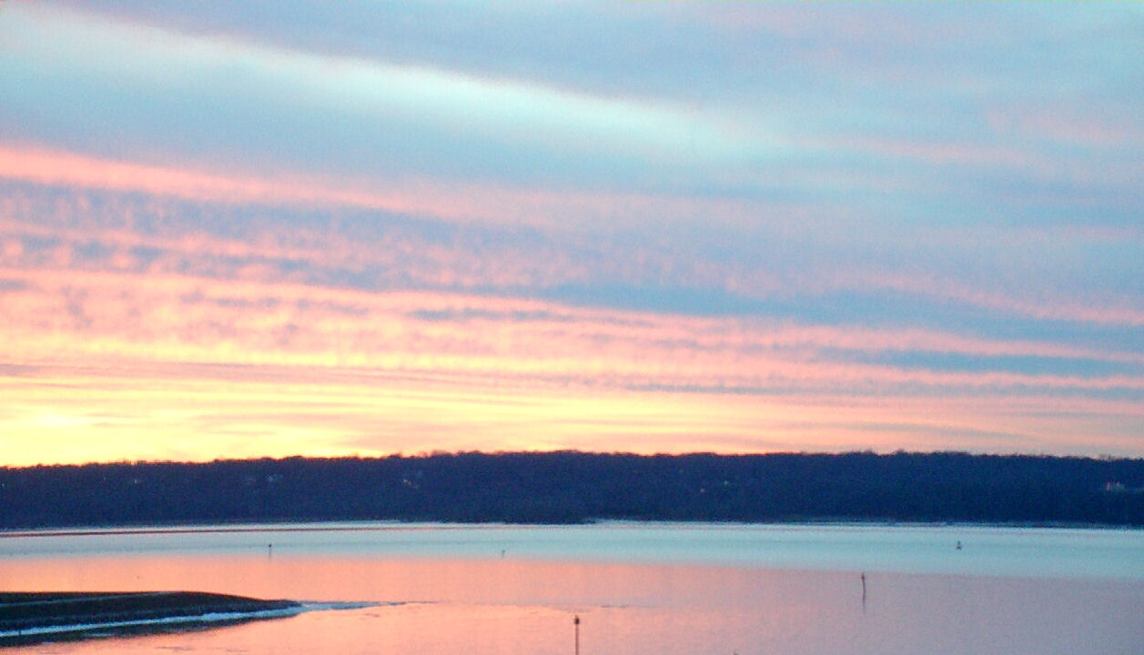 Sunset over the Potomac River, looking south towards George Washington's Mount Vernon Estate